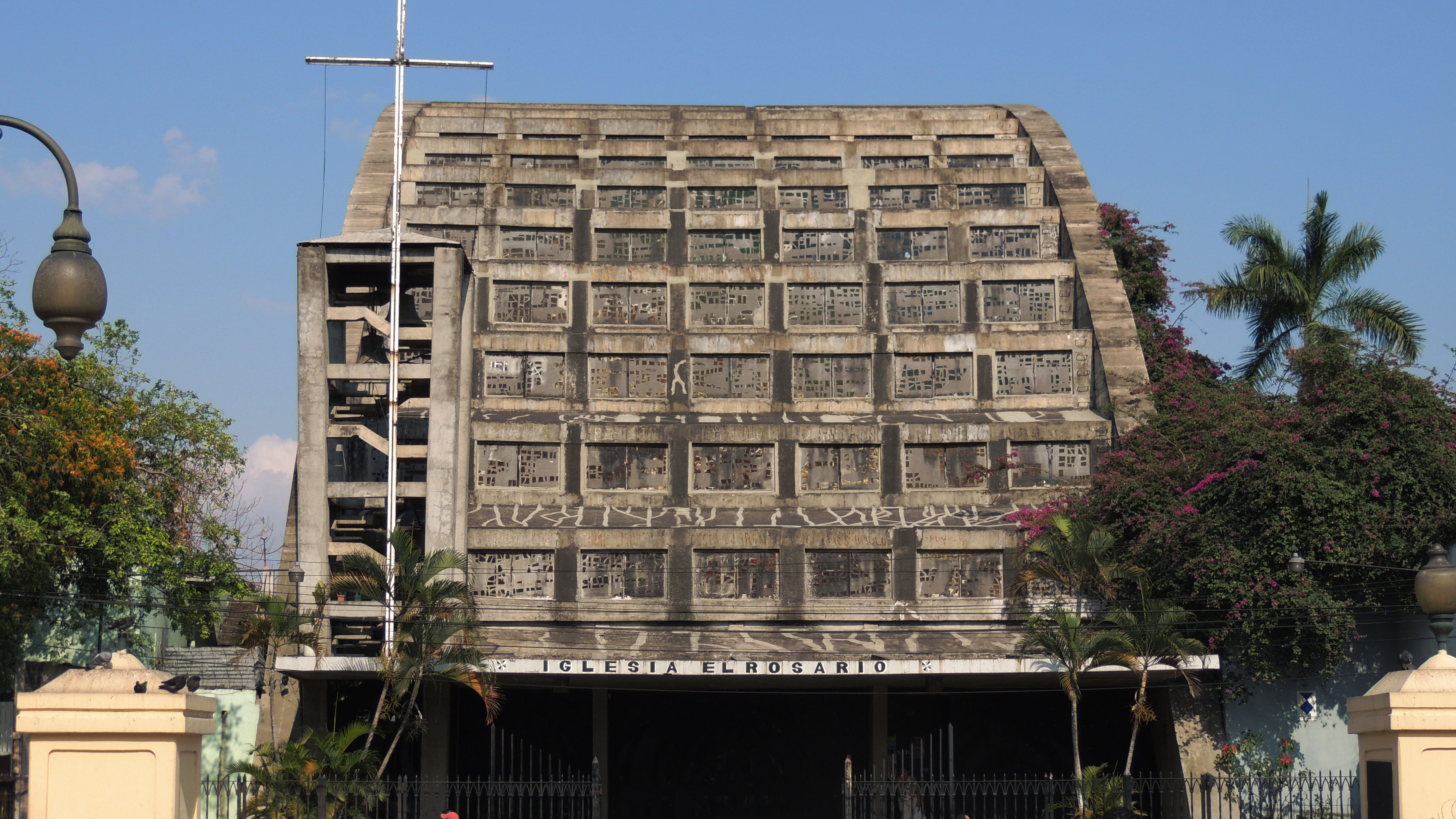 Fachada de la Iglesia El Rosario